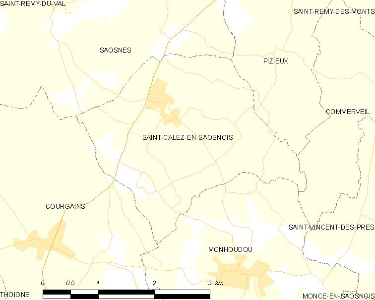 Map of French municipality